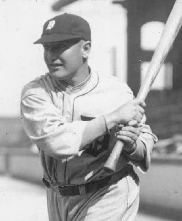 Professional baseball player Fred Haney